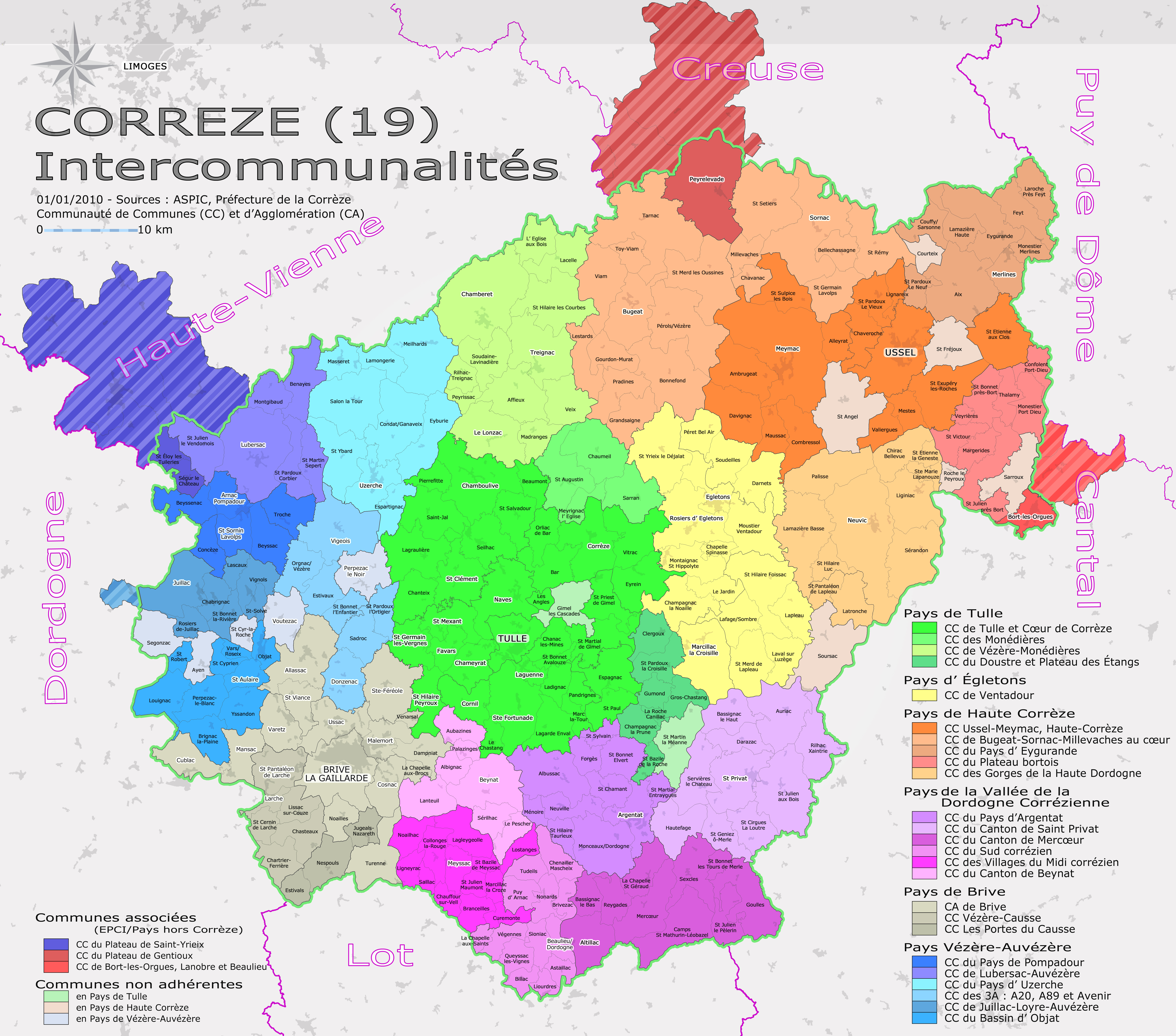 Correze Map